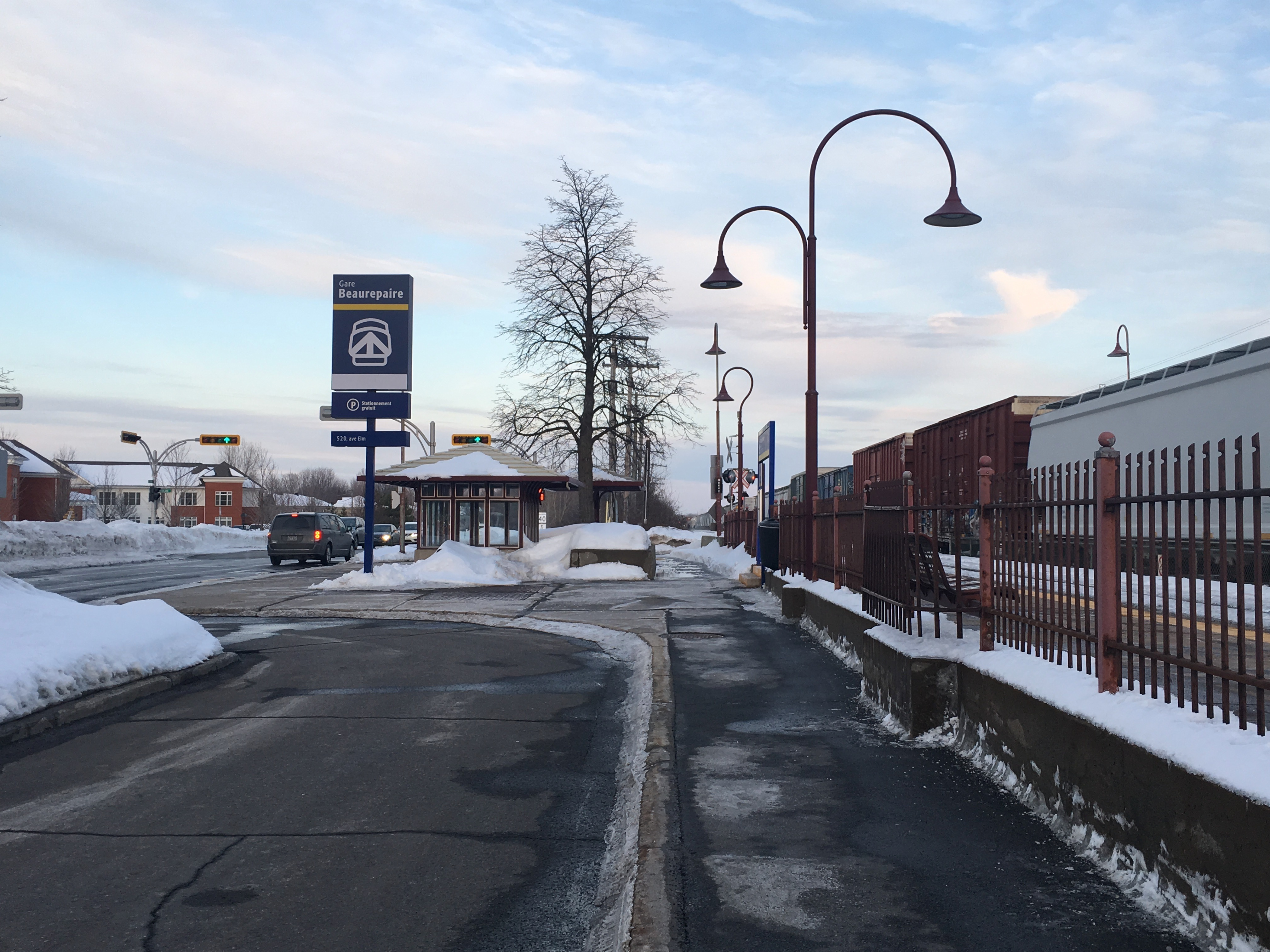 Picture of the Beaurepaire exo train station, facing towards Montréal